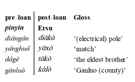 an example of the phonological changes between Mandarin and Ersu in adaptation